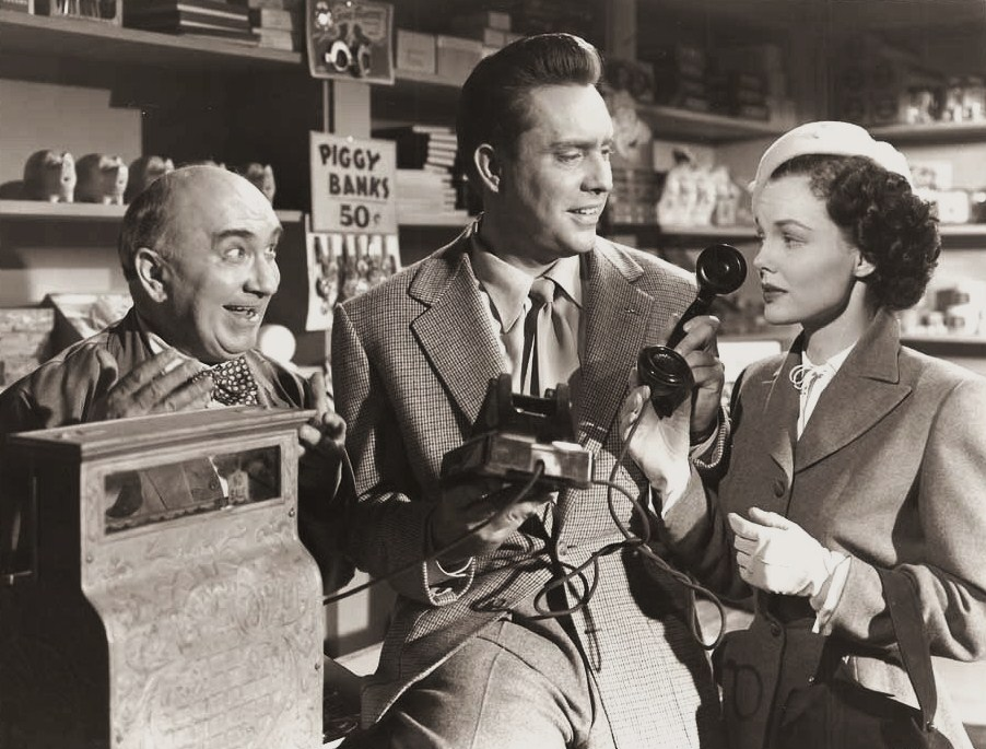 Left to right: Fred Essler, Edmond O'Brien, and Wanda Hendrix in The Admiral Was a Lady (1950) - publicity still (cropped)